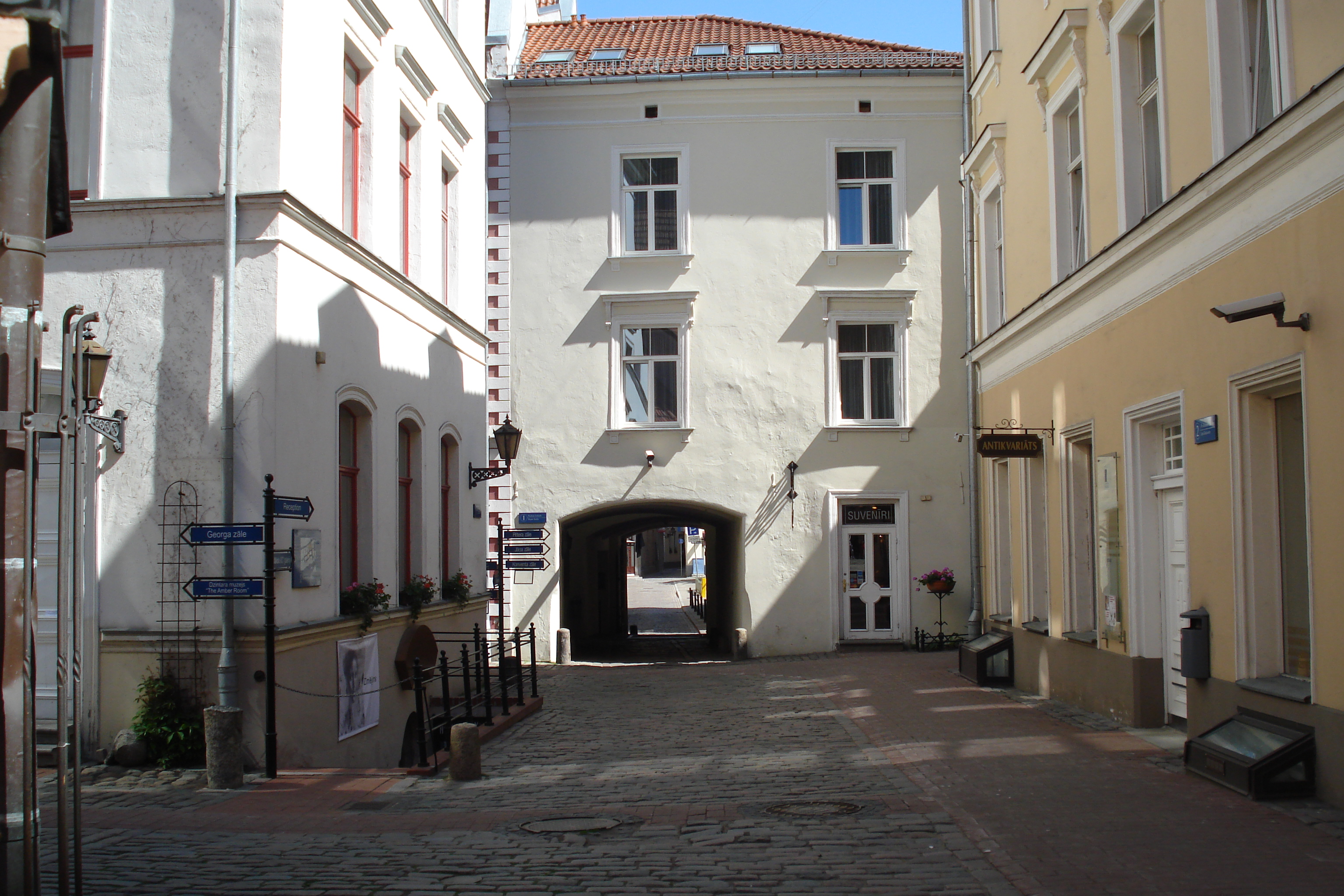 Konventa seta (Convent Yard, Двор Конвента) in Riga (The yard originates in the first half of the 13th century. There were only shelters in the Convent yard since 1554 - the widow house and a shelter of the nuns. Later besides shelters there were also dwelling houses and warehouses in the Convent yard.